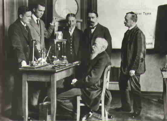 Wundt research group, ca. 1880. Author unknown. This image is in the public domain. Neither the author of the photograph nor the author's agents or heirs have, to the best of my knowledge, ever claimed authorship or copyright.